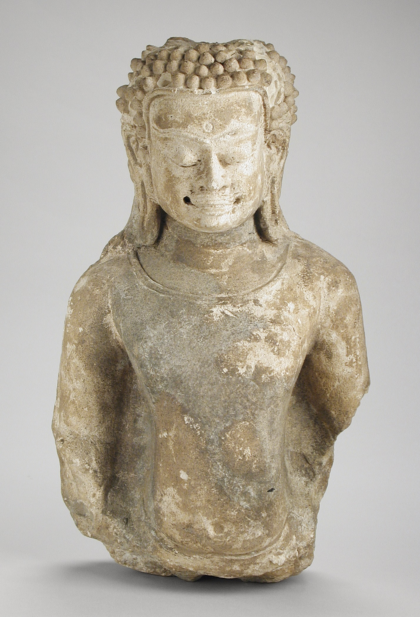 Thailand, Haripunchai, 12th-13th century Sculpture Stucco 13 3/4 x 5 1/4 x 5 in. (34.93 x 13.34 x 12.7 cm) Gift of Michael Phillips and Juliana Maio (AC1993.210.2) South and Southeast Asian Art